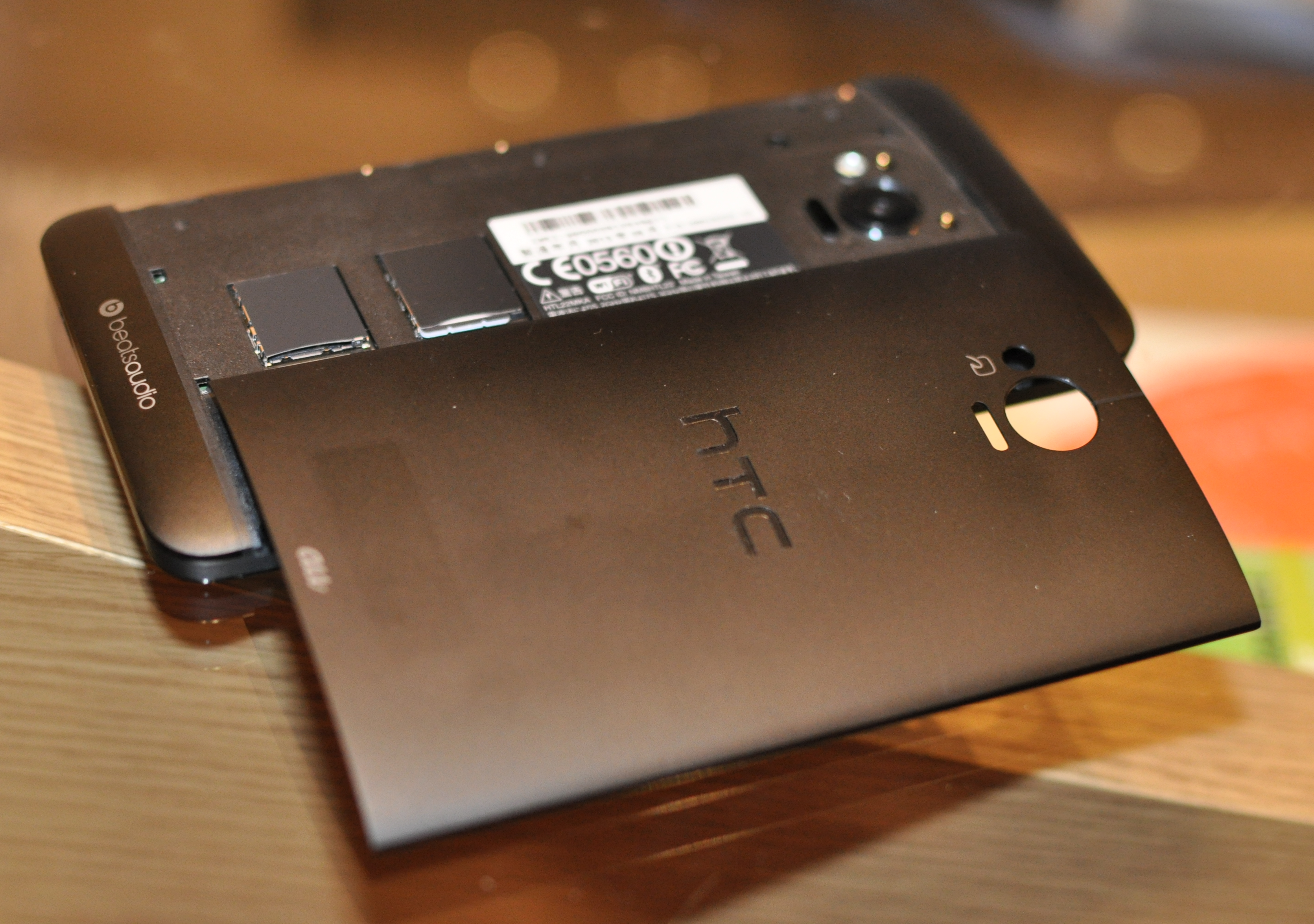 Back cover of the HTC One J (HTL22) flagship smartphone by HTC.